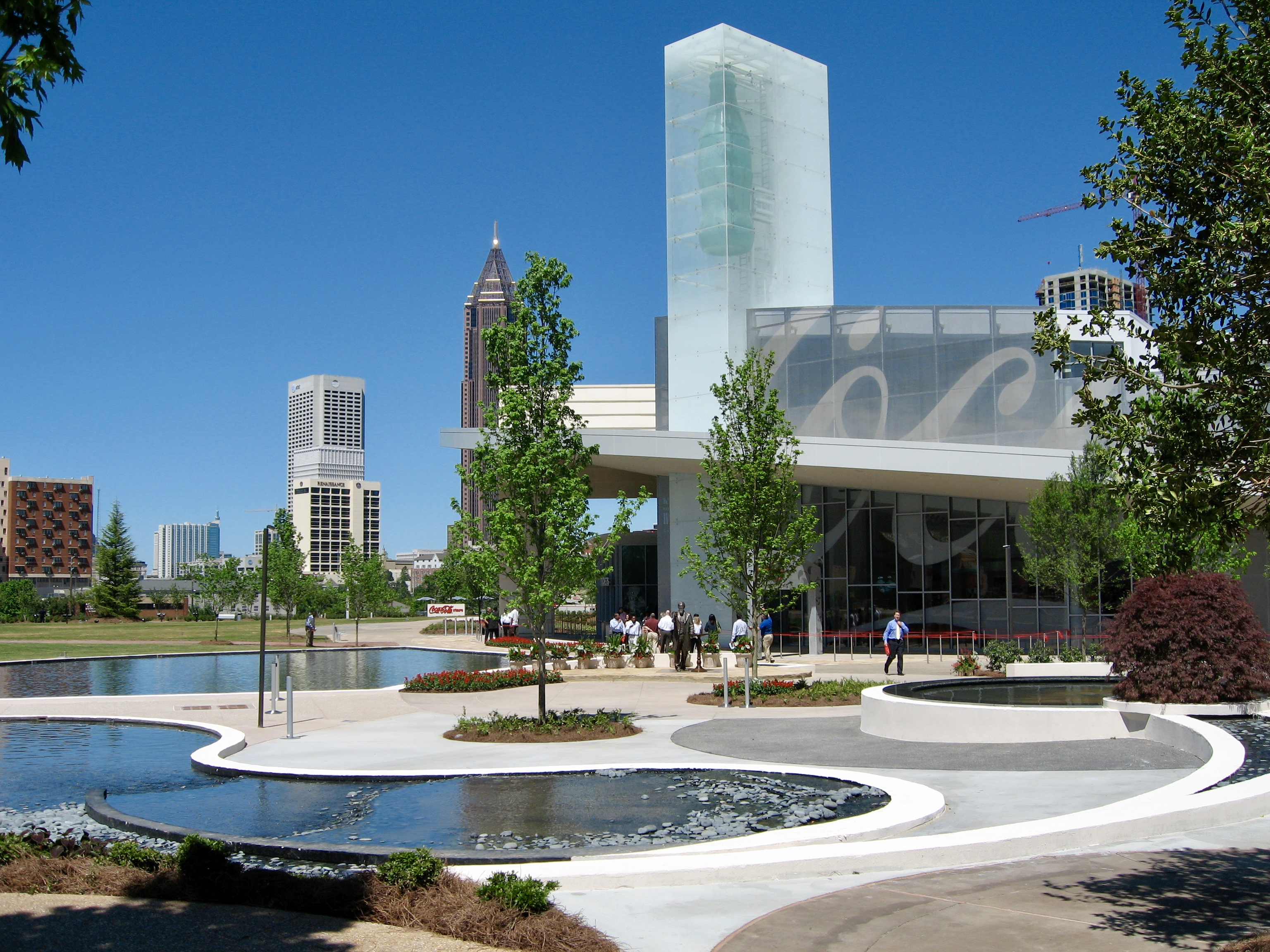 The World of Coca-Cola at Pemberton Plaza in downtown Atlanta, Georgia. Located adjacent to the Georgia Aquarium and the Center for Civil and Human Rights near Centennial Park.